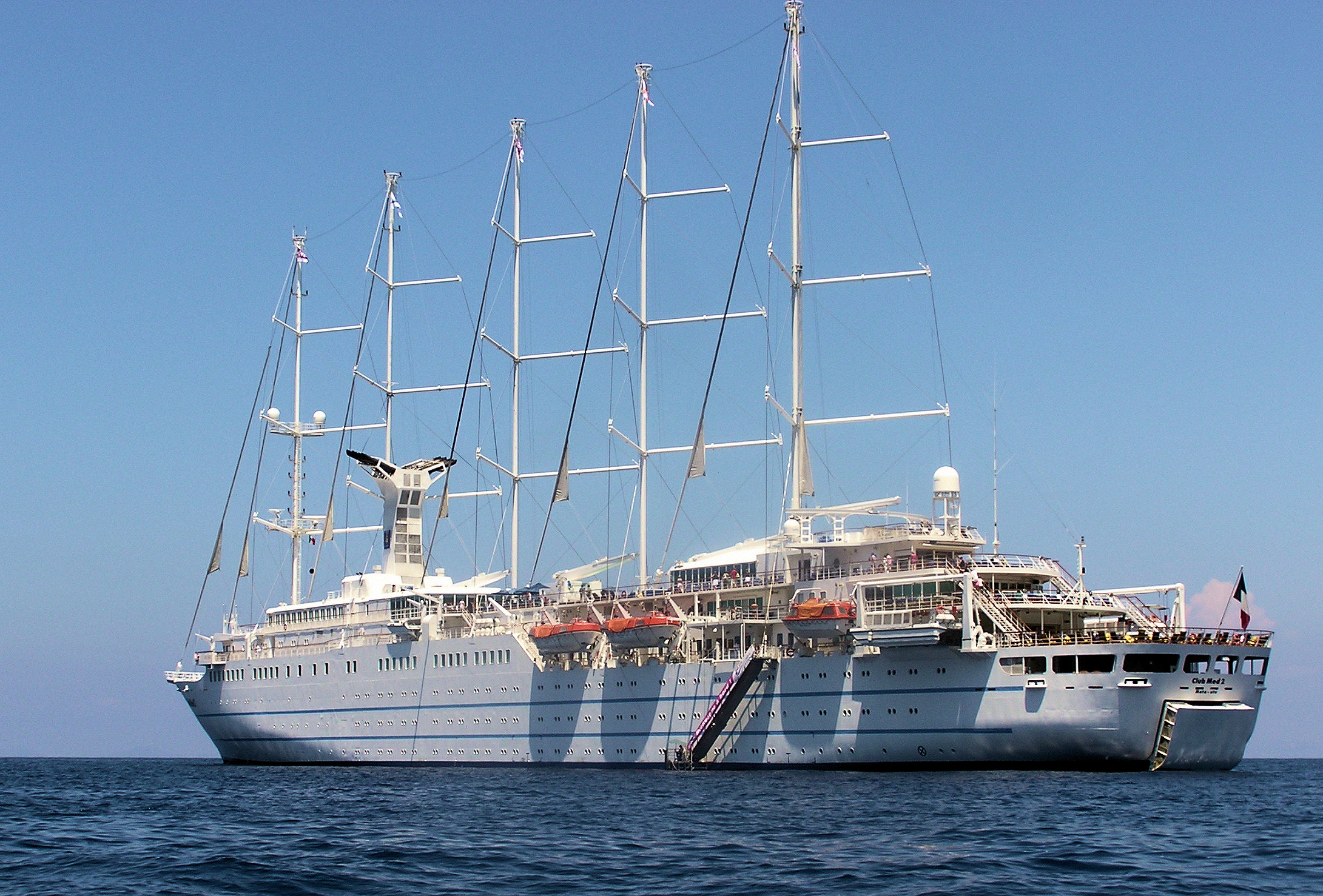 Club Med 2 is a 5-masted sailing ship owned by Club Med. Launched 1992 at Le Havre, France. Passengers: 400, crew: 200. Length 187 metres, gross tonnage 14,983. She cruises in the Mediterranean, Caribbean and Atlantic. Photographed by Adrian Pingstone in Capri Harbour, Italy, in June 2007, and placed in the public domain.